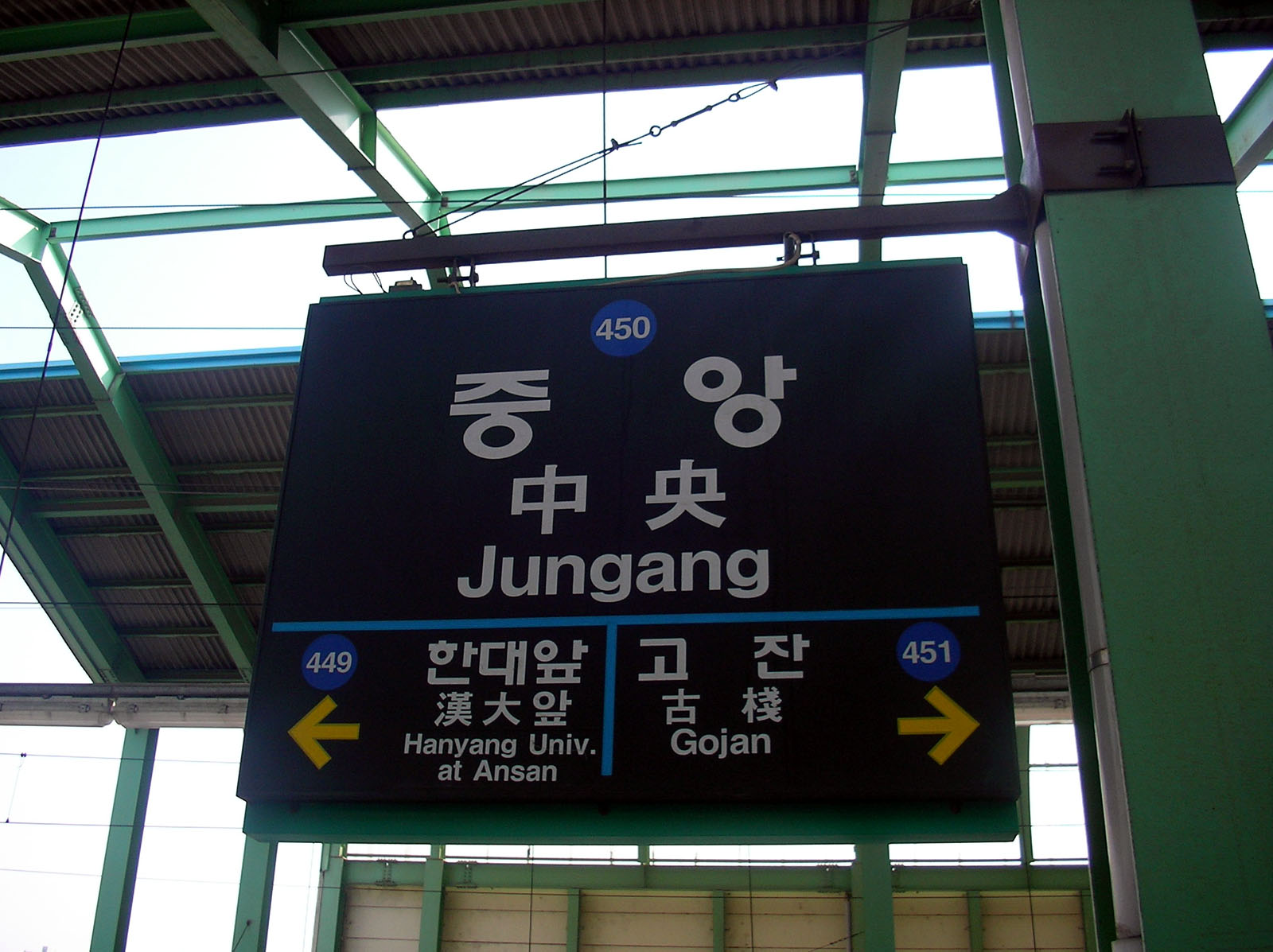 Jungang Station in Seoul Subway Line 4